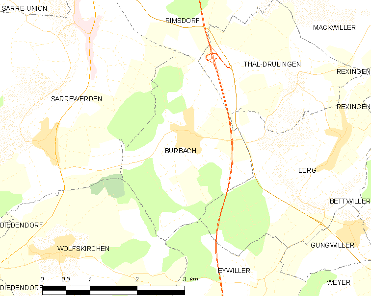 Map of French municipality